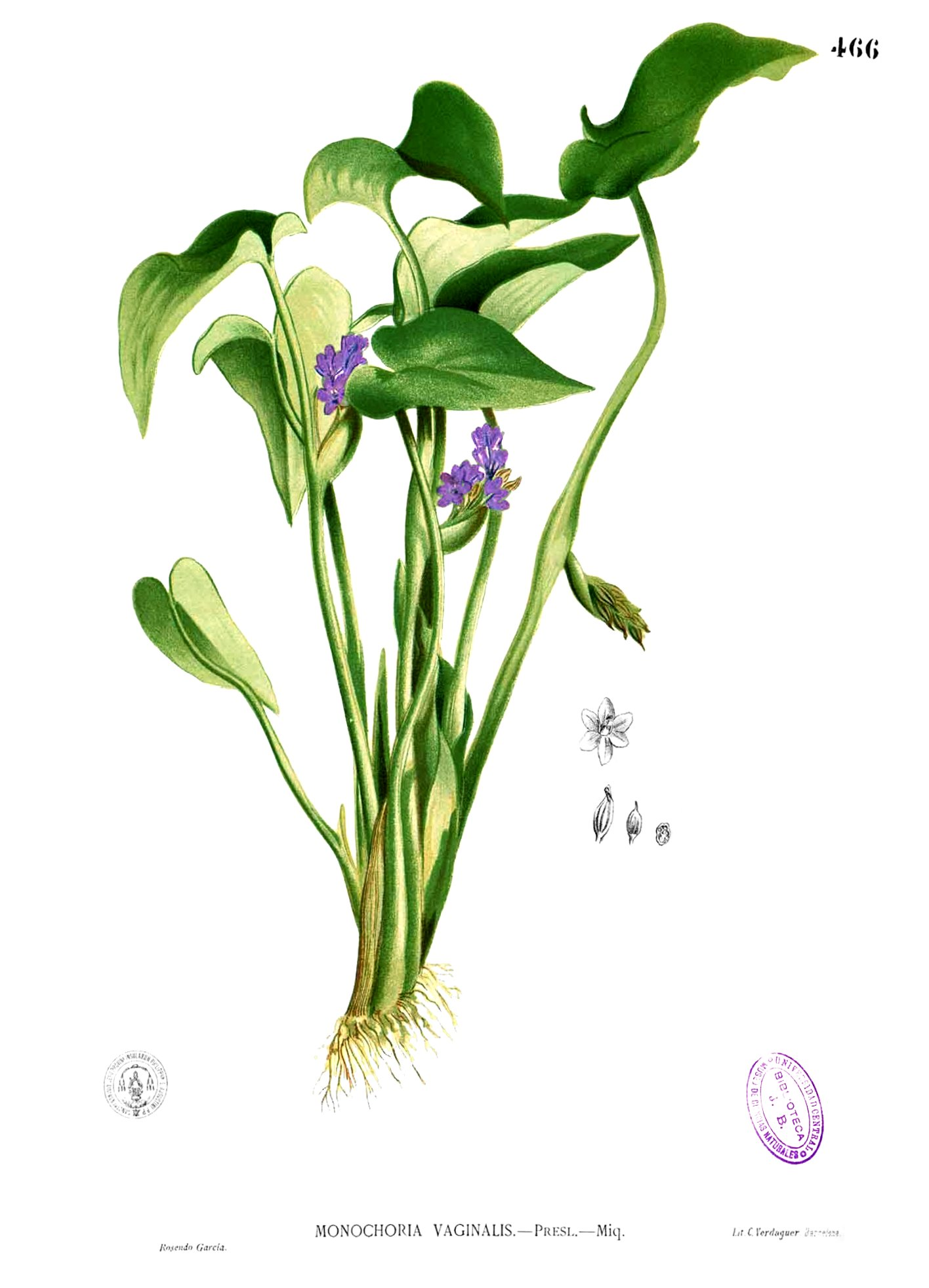 Monochoria vaginalis, Plate from book